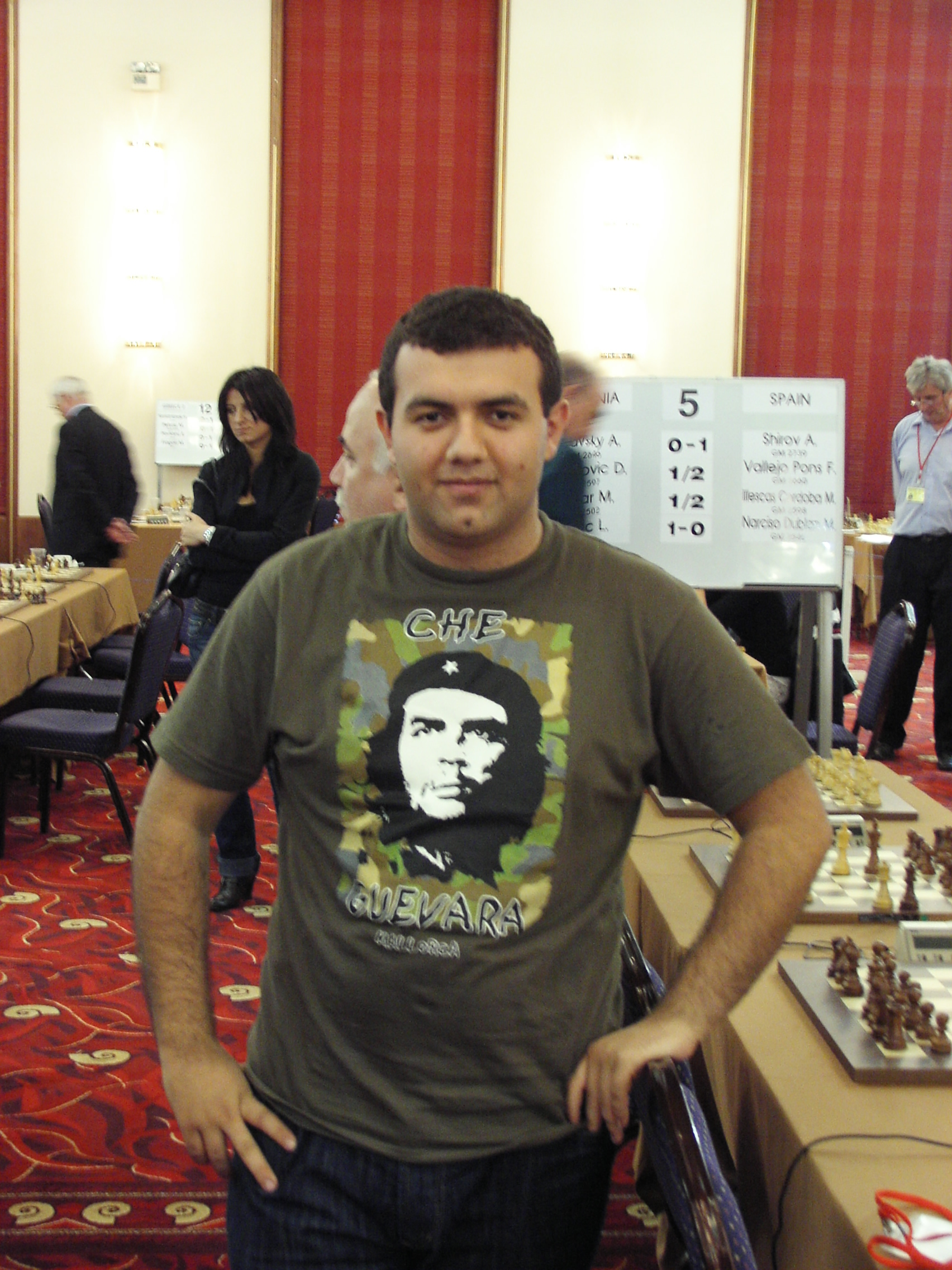 GM Rauf Mammadov (Azerbaijan) wearing Che Guevara t-shirt, Heraklion 2007.